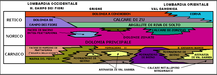 Stratigraphic scheme of Late Triassic in Lombardy (Northern Italy).